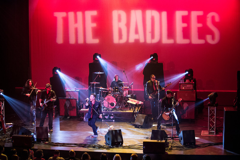 Badlees live promo shot